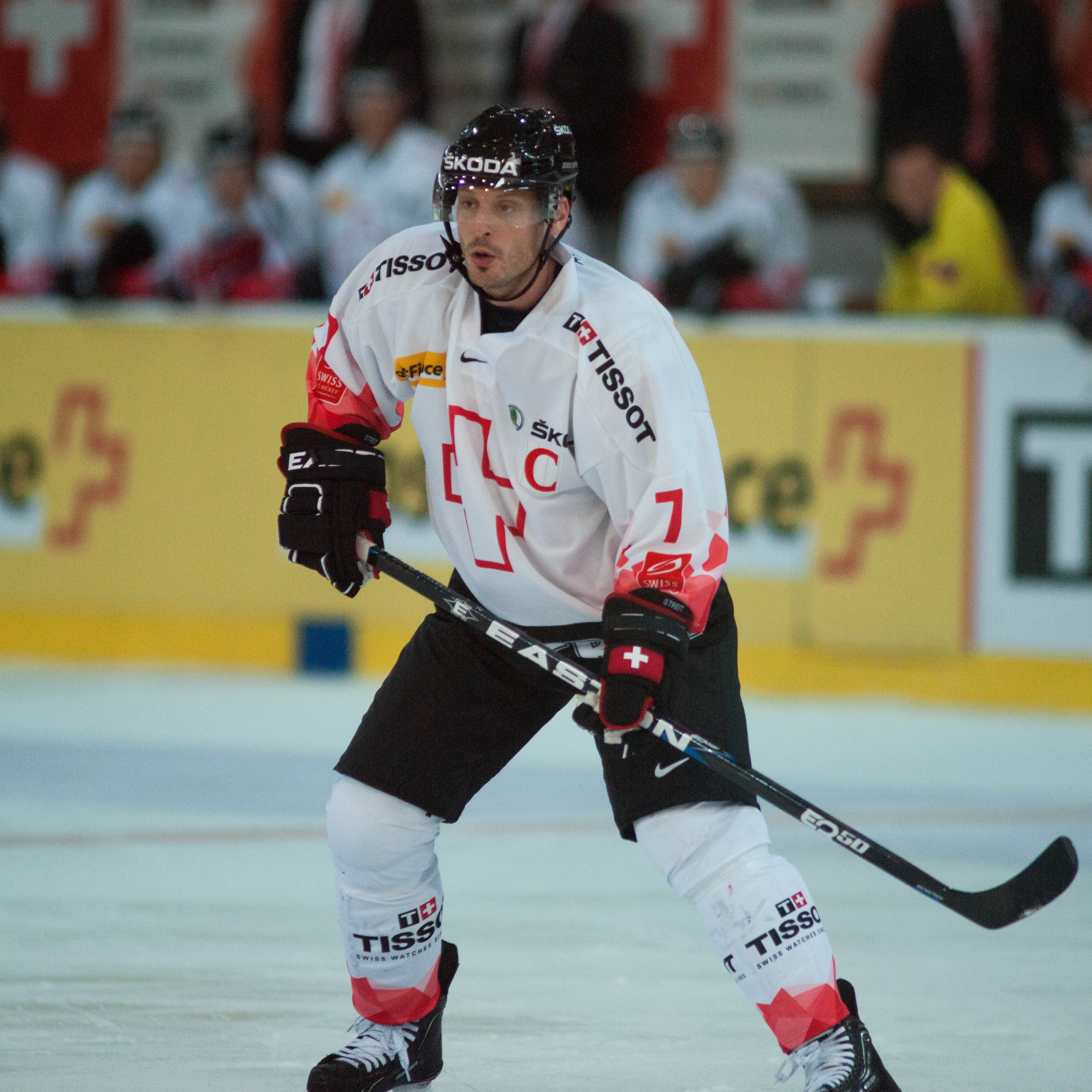 Switzerland vs. Canada, 29th April 2012